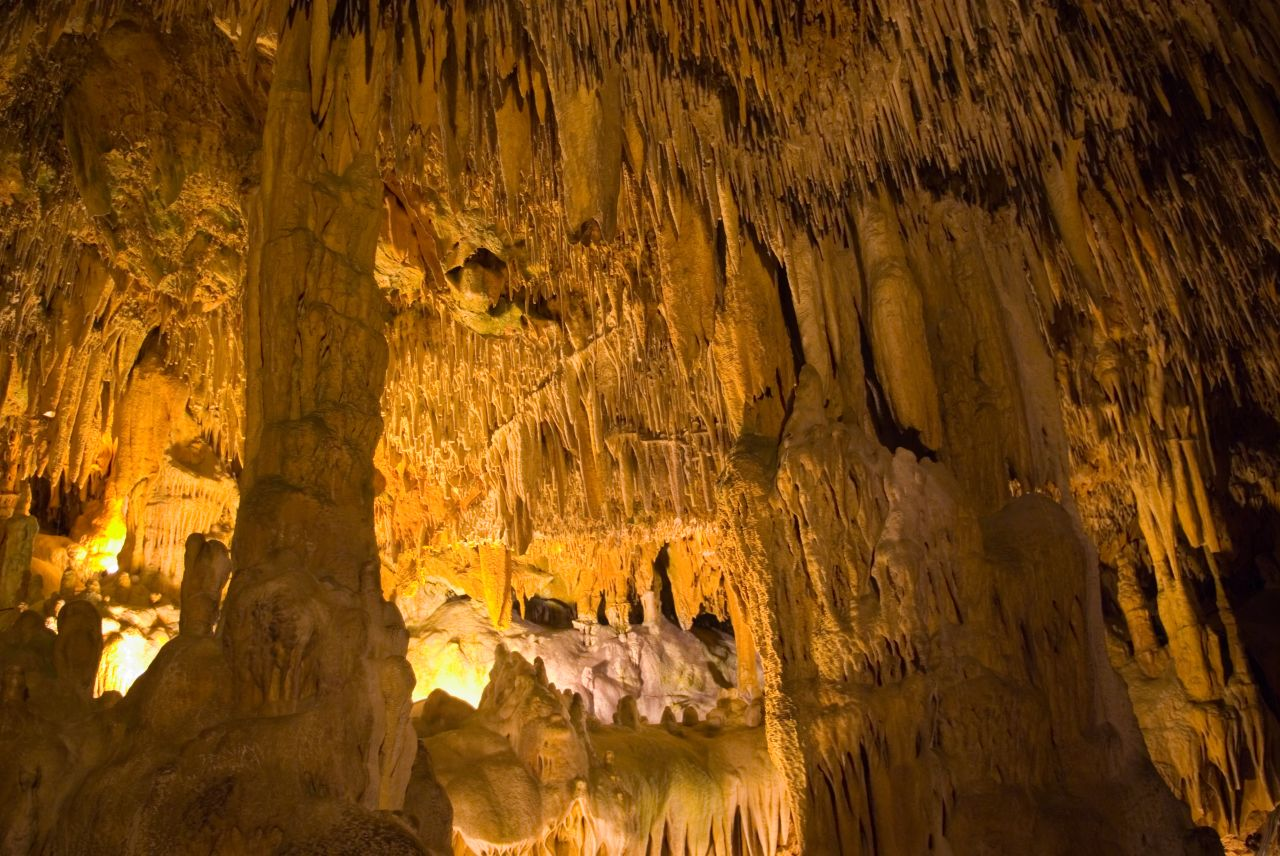 Damlataş Cave in Alanya, Turkey. Discovered in 1948, it became popular tourist destination starting in the 1950s. The Turkish name, Damlataş Magarasi means "Cave of Dripping Stones."